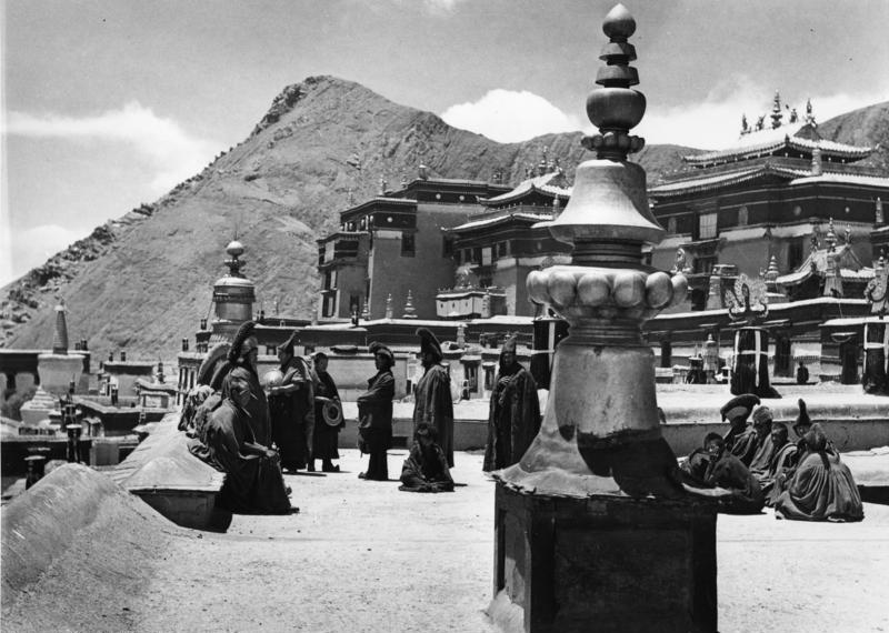 Tibetexpediton, Tashi Lhunpo, Mönche Schigatse, Lamas auf einem Tempeldach [Shigatse, Tashilumpo, Tashilhunpo, Zhaxilhünbo, Tashi Lhunpo]